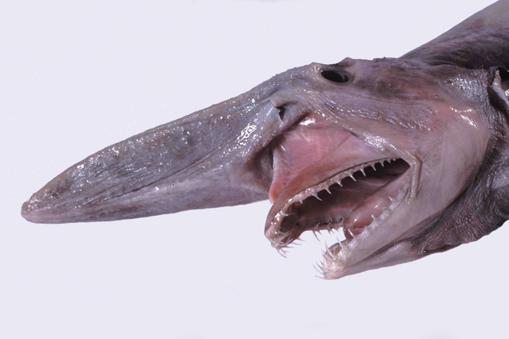 Head of a goblin shark (Mitsukurina owstoni) with jaws extended